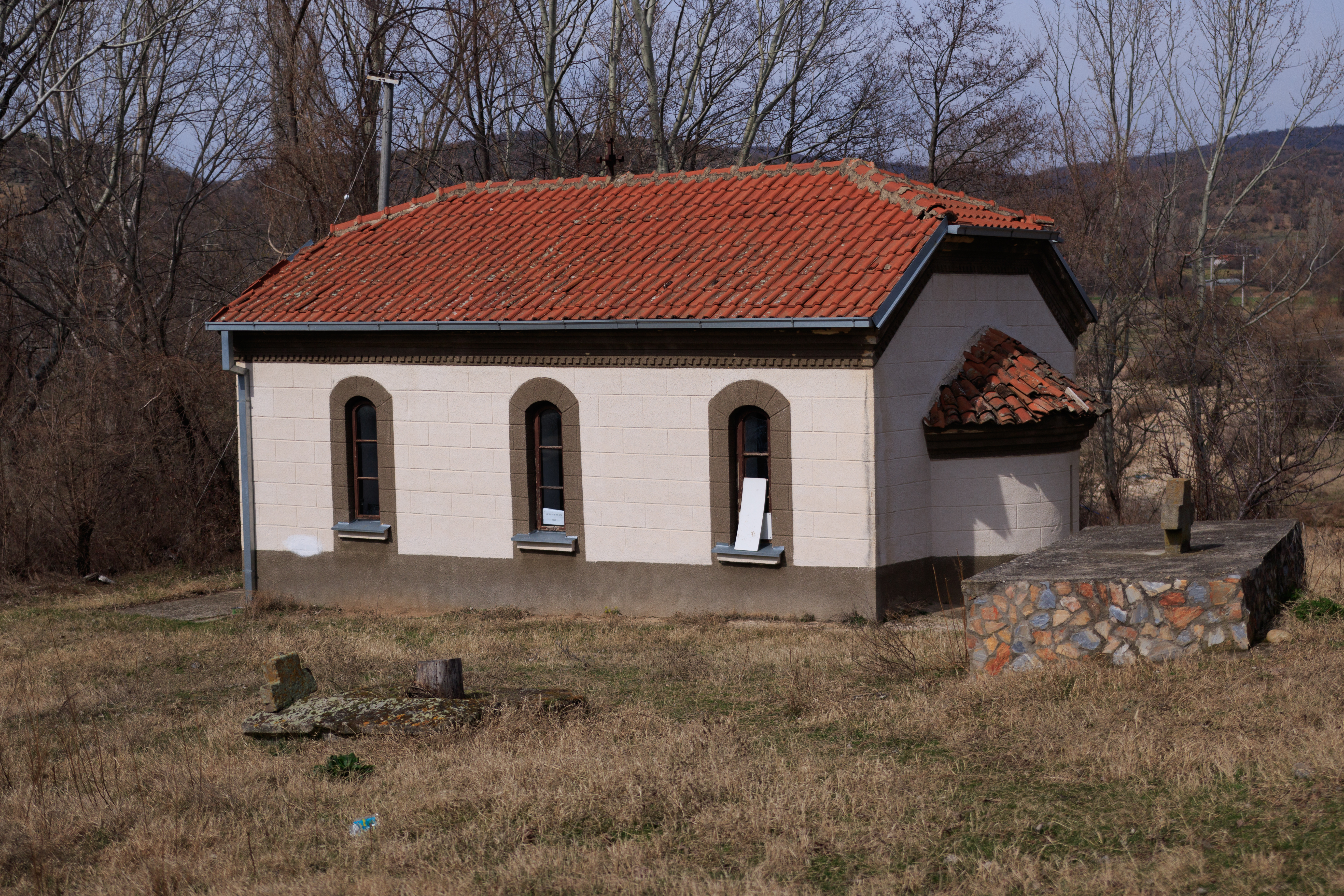 View of the St. George's Church in the village Pelince